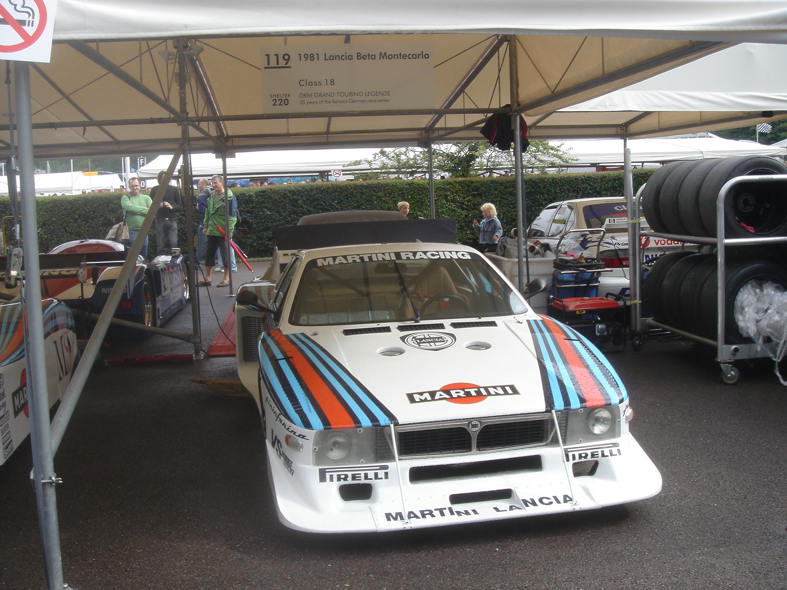 Goodwood Festival of Speed 2007 - Lancia Beta Montecarlo (1991)